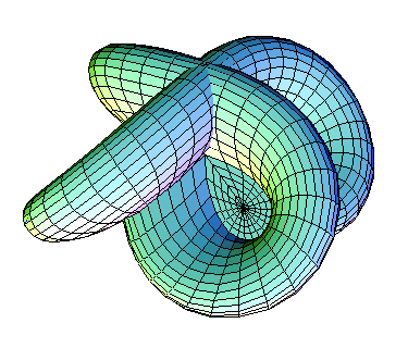 Another view of a Morin surface